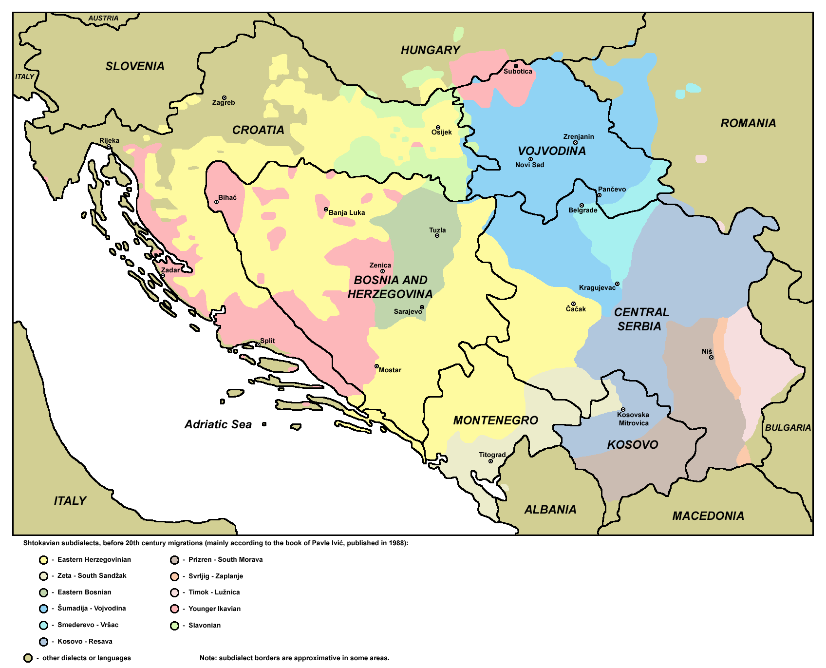 Shtokavian subdialects, before 20th century migrations (map is mostly made according to the book of Pavle Ivić (published in 1988) with additional info for Slovenia, not used in original Ivić's work).Srpskohrvatski / српскохрватски: Štokavski poddijalekti, pre migracija u 20. veku (mapa je većim delom rađena prema knjizi Pavla Ivića (objavljenoj 1988. godine), sa dodatkom podataka o Sloveniji, koji nisu originalno korišćeni u Ivićevom radu).